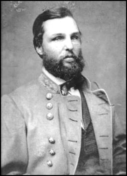 Lunsford Lindsay Lomax (1835–1913), CSA